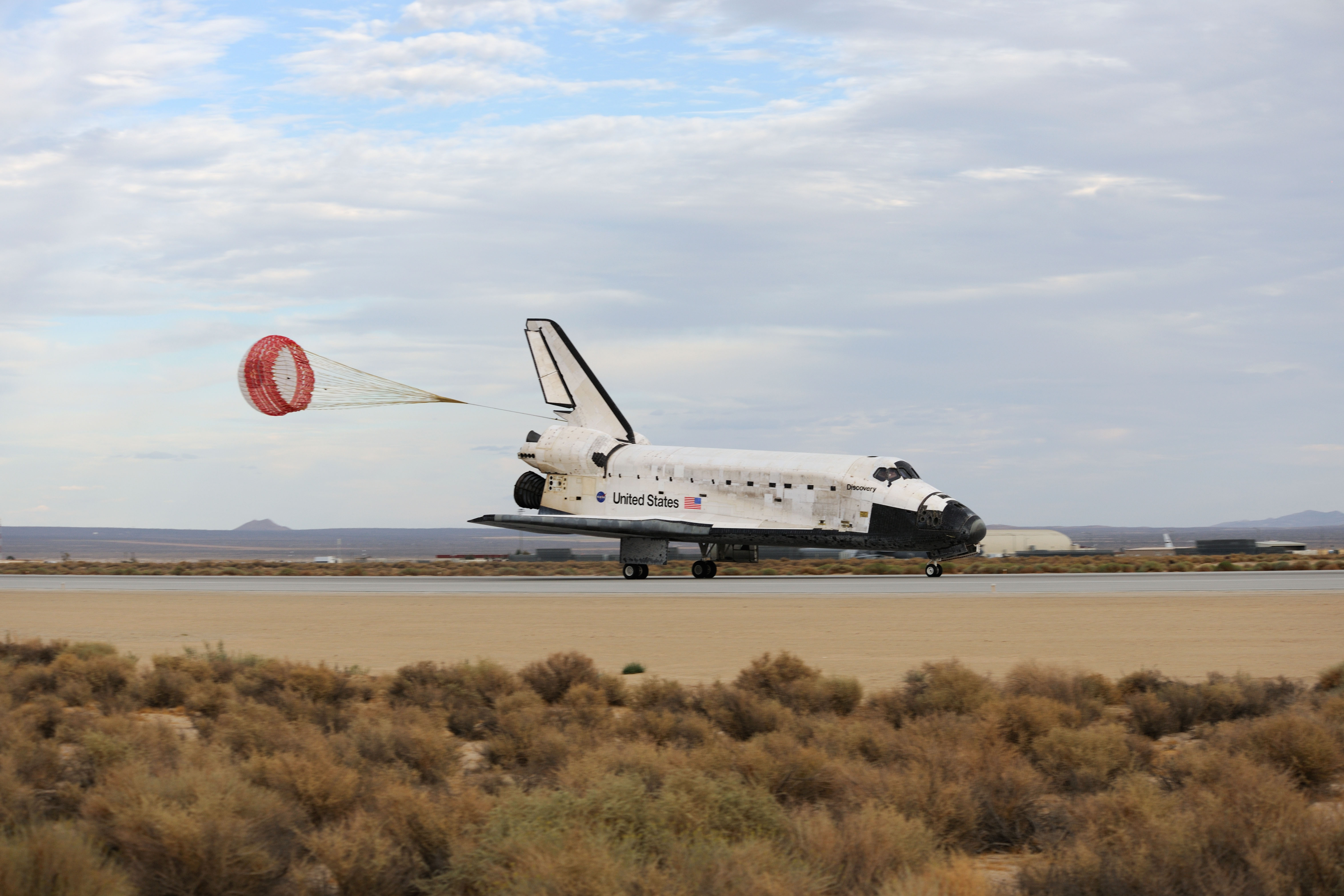 Trailing its drag chute, Space Shuttle Discovery slows to a stop after landing at Edwards Air Force Base to conclude its almost 14-day, 5.7-million-mile journey to the International Space Station on mission STS-128.